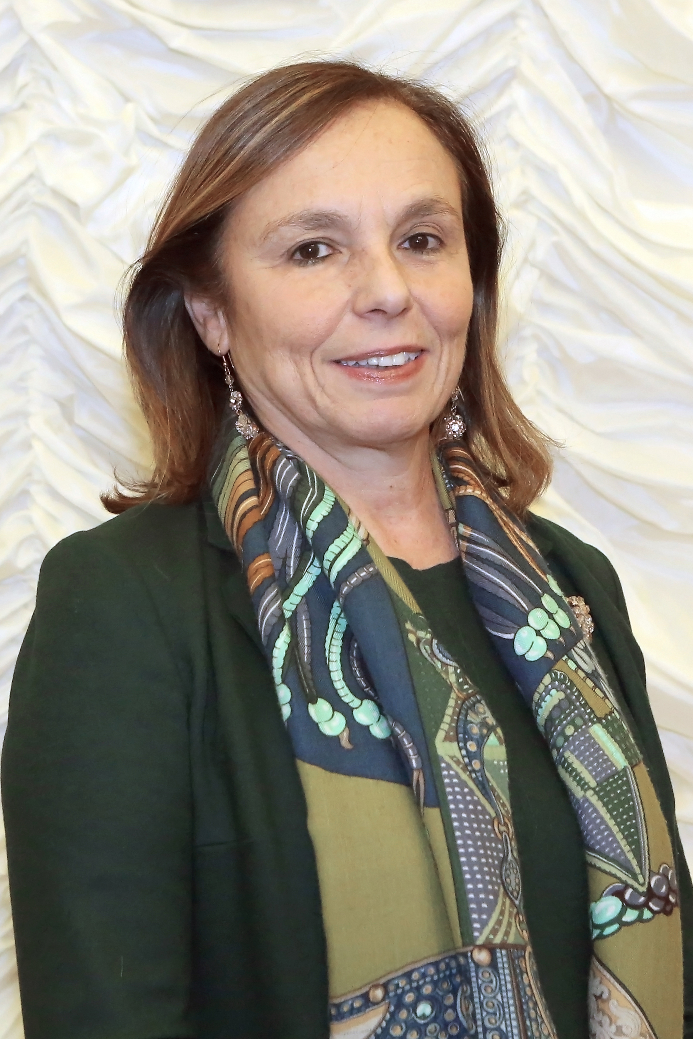 Luciana Lamorgese